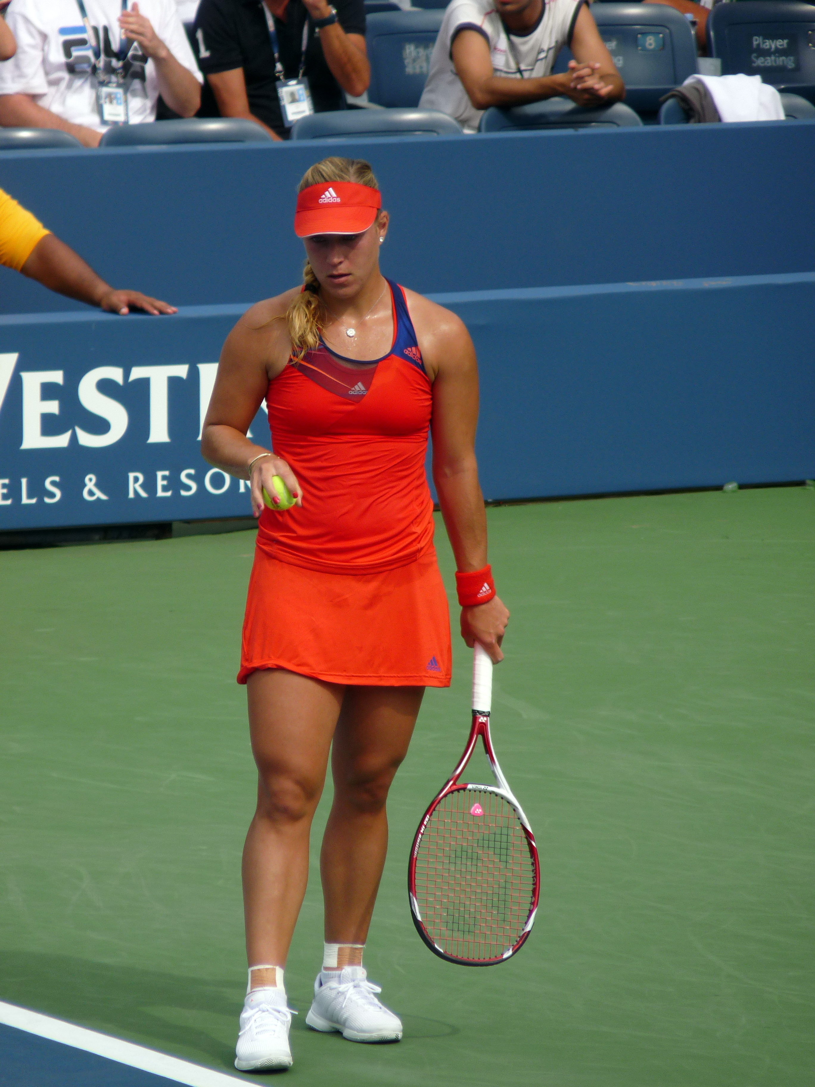 US Open 2013 - Women's Singles 4th Round (Louis Armstrong Stadium) - Carla Suárez Navarro [18] vs. Angelique Kerber [8] - 4–6, 6–3, 7–6(7–3)